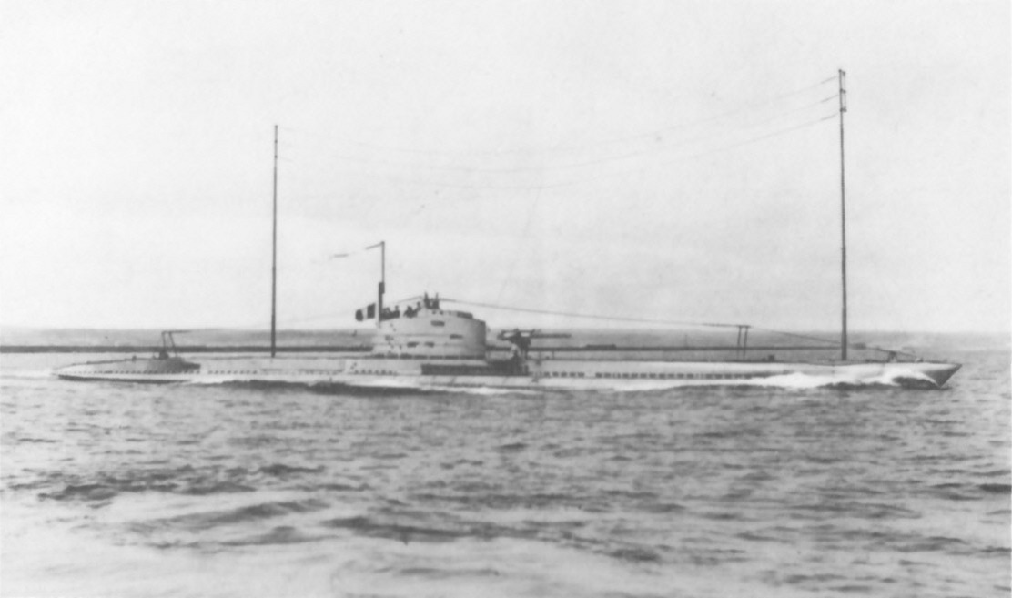 French submarine Ariane, launched in 1925. Description from Francis Dousset, Les Navires du Guerre Francais, page 207.